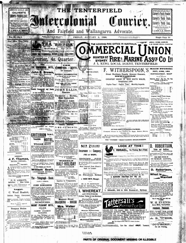 Front cover of the Tenterfield Intercolonial Courier and Fairfield and Wallangarra Advocate on 5 January 1900